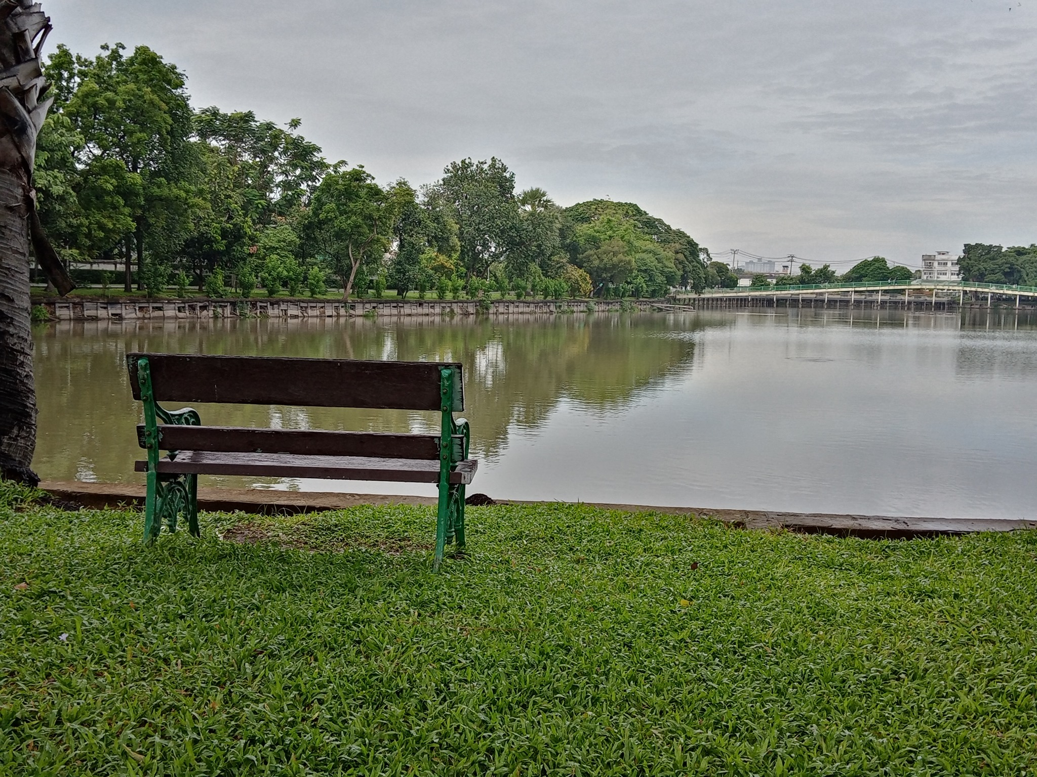 Seri Thai waterfront bench.